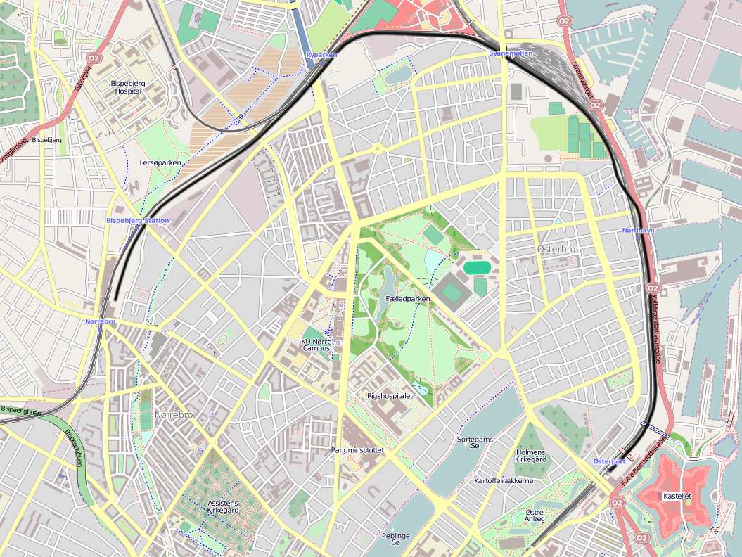 Railway line Lersøen - Østerport